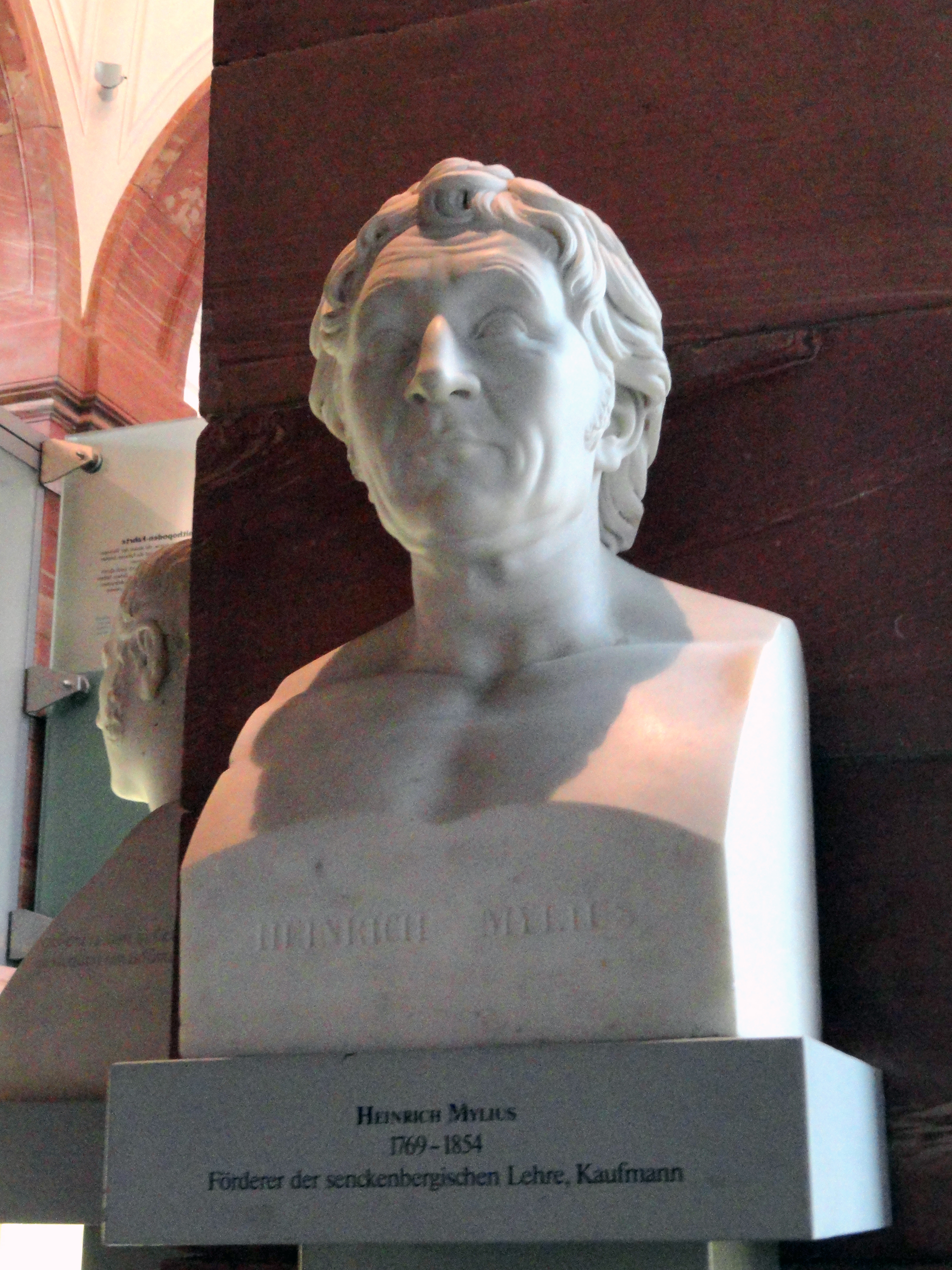 Portrait bust in Naturmuseum Senckenberg, Frankfurt am Main, Germany. This artwork is old enough so that it is in the public domain.